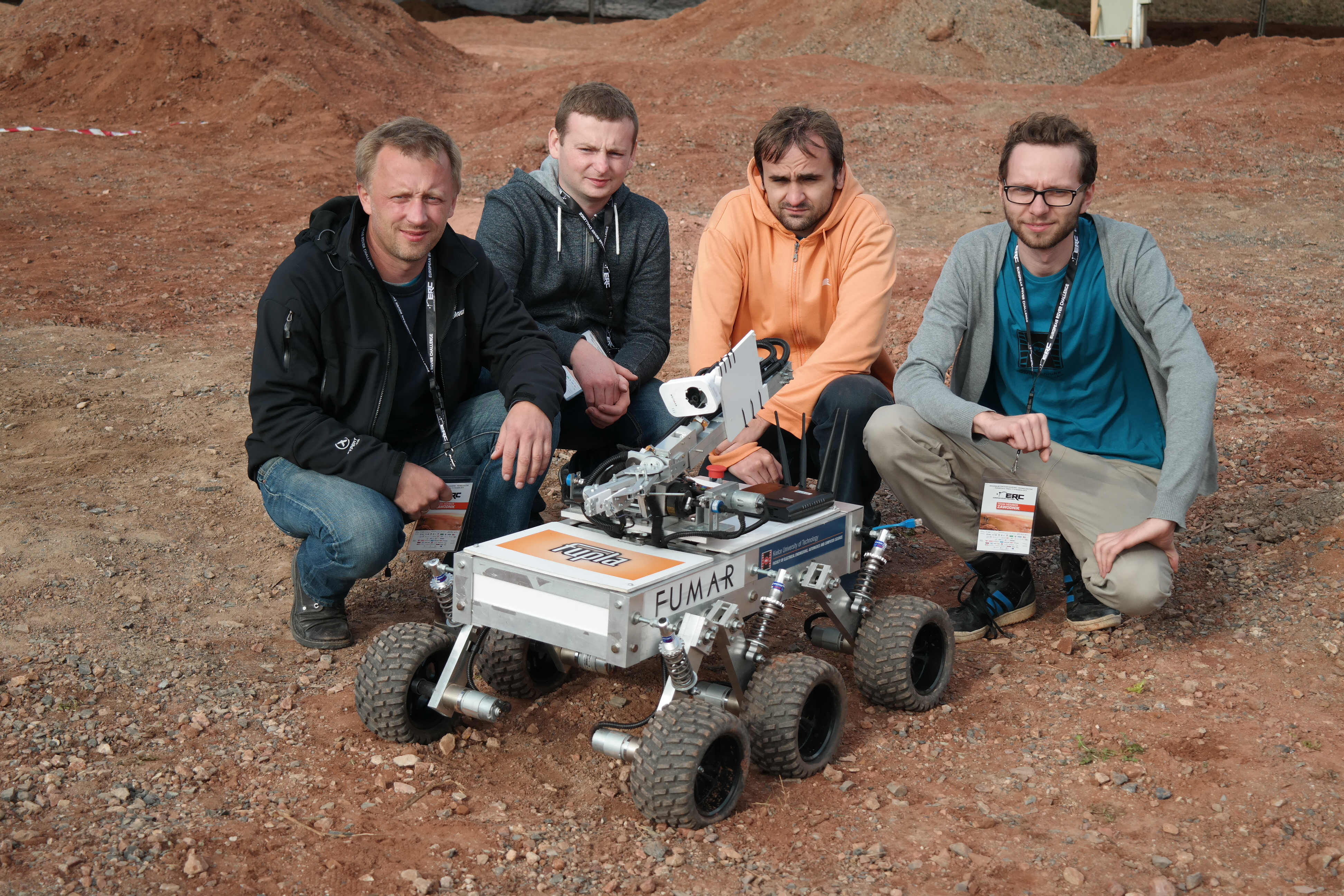 European Rover Challenge 2015, 5-6 September, Podzamcze near Chęciny near Kielce, Poland. The 8th place rover "FUMAR", built and run by the Polish Politechnika Świętokrzyska FUPLA team (Wydział Elektrotechniki, Automatyki i Informatyki). 2nd day, after the competition runs, with operators.